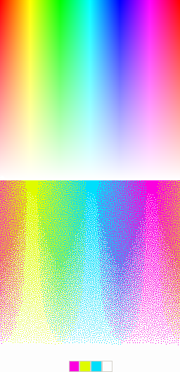 A colorful image with smooth variation in tones reduced to a palette of 4 colours using the scolorq tool, which uses the spatial colour quantization algorithm.